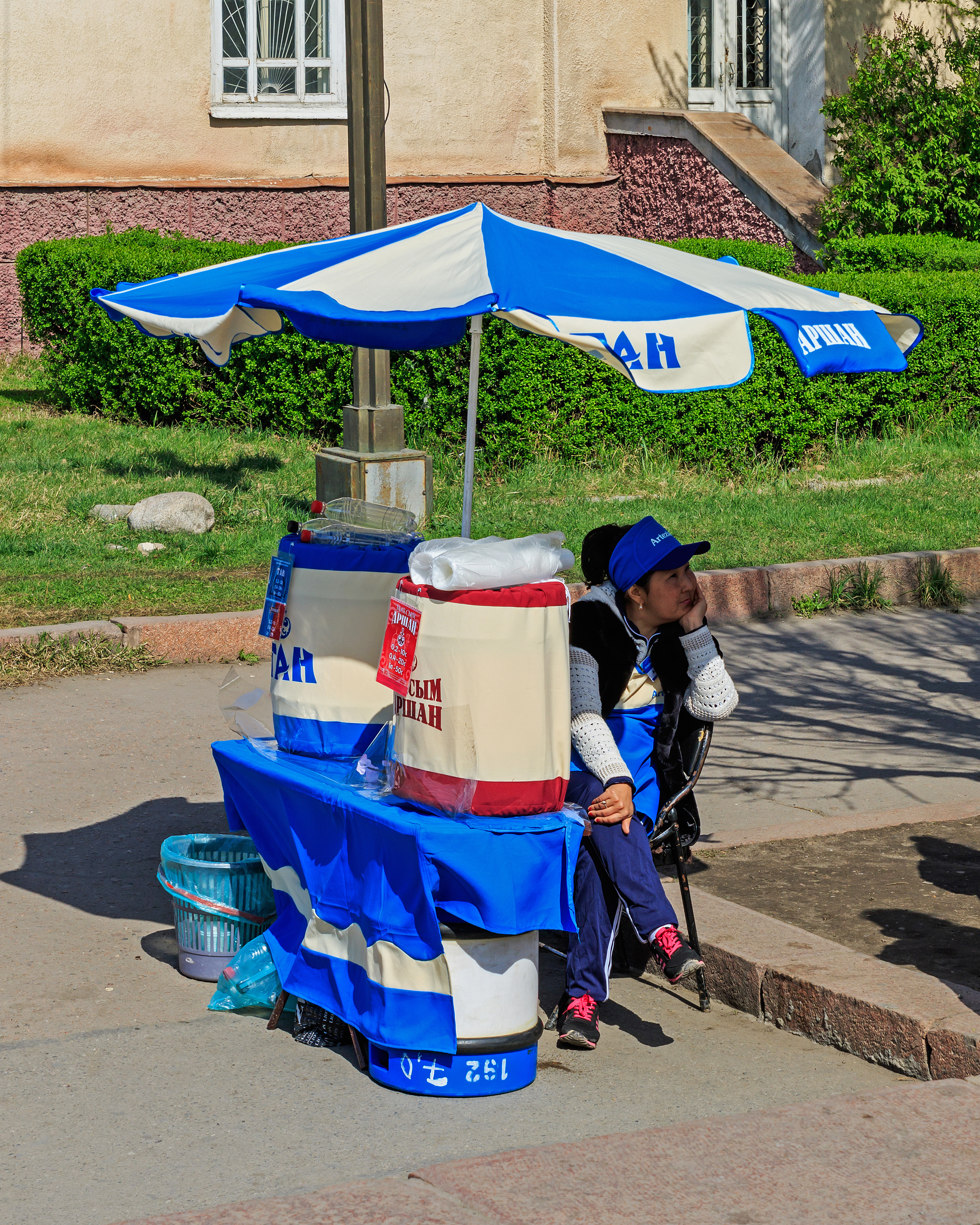 Street vending of doogh and maxym in Bishkek, Kyrgyzstan